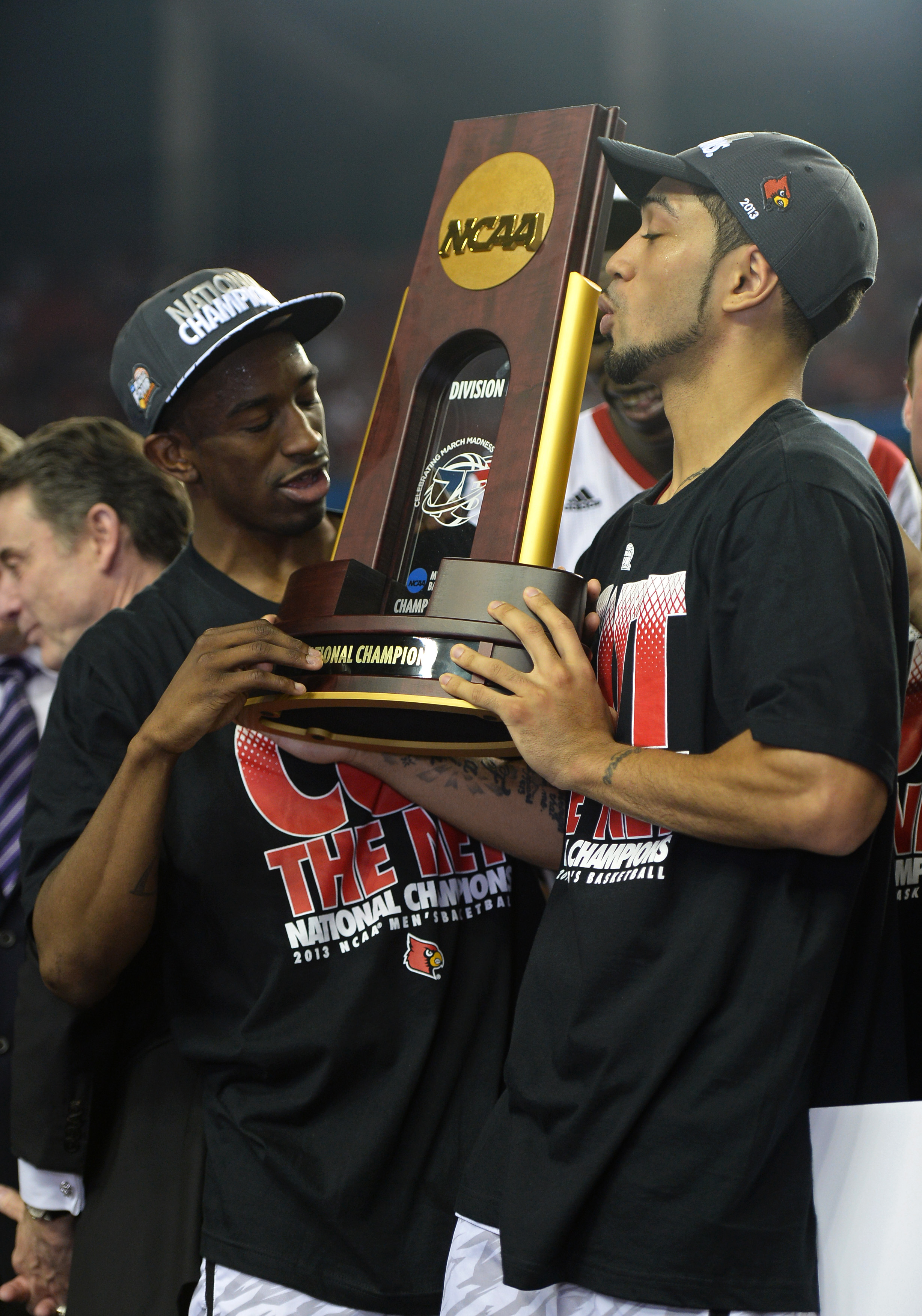 Louisville basketball players Russ Smith (right) and Peyton Siva (left) with the NCAA Men's Basketball Championship Trophy.